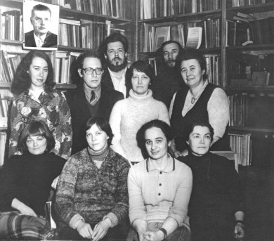 Rear row, standing from left to right: Irina Dobrohotova; Prof Alexander Rasnitsyn; Dr. Vladimir Zherikhin; Dr. Ludmila Pritikina; Dr. Vladimir Kovalev; Valentyna Vishniakova. Front row (sitting) from left to right: Tamara Ivanova, Dr. Nina Sinichenkova; Dr. Irina Sukacheva; Dr. Nadezhda Kalugina. Prof. Boris Roddendorf is on the portrait.